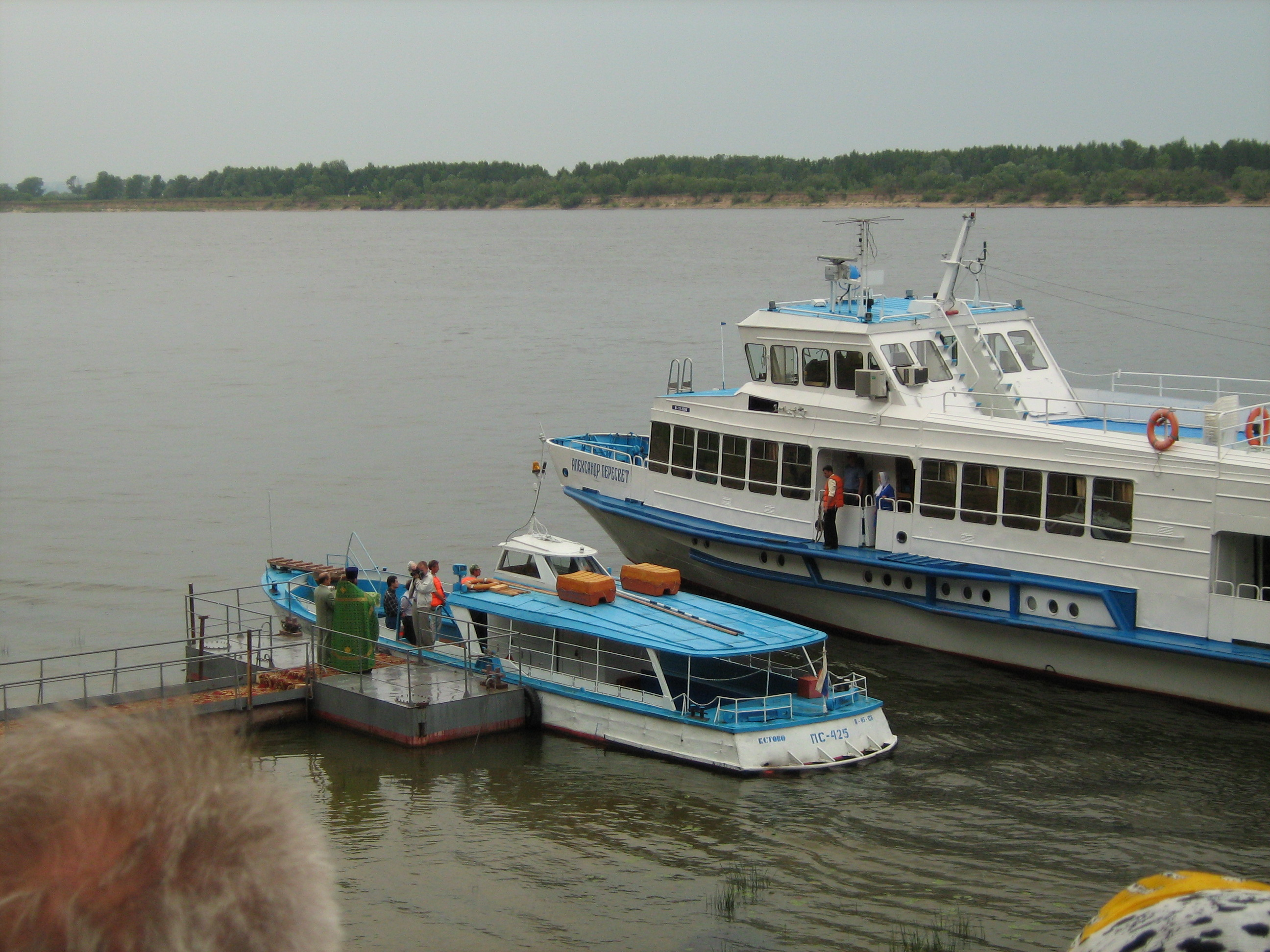 A procession in Kstovo on the occasion of the Holy Relics of Venerable Macarius passing this city on its way to Makariev Monastery, August 4, 2007